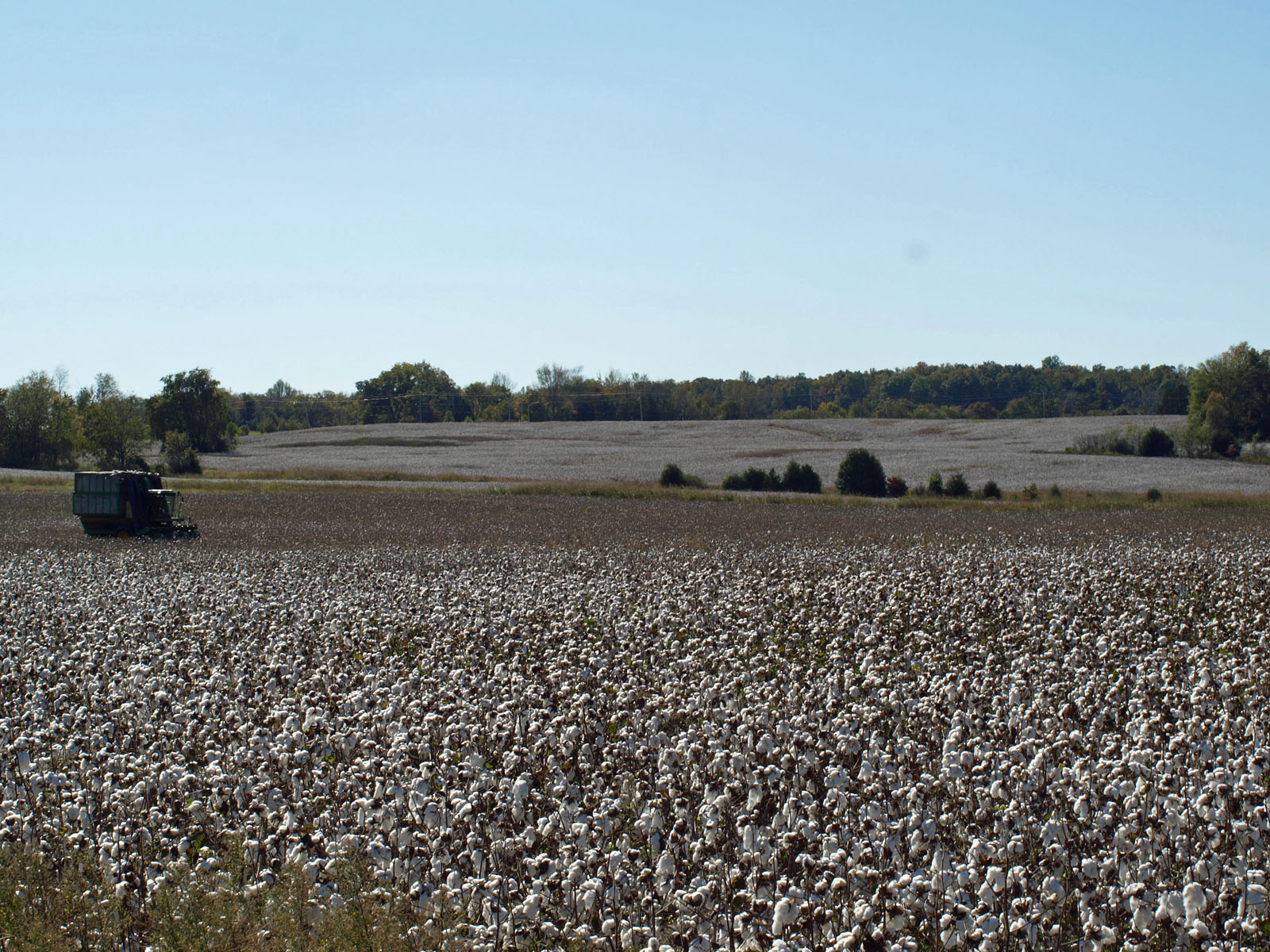 A cotton farm being harvested outside Huntsville, Alabama, USA.